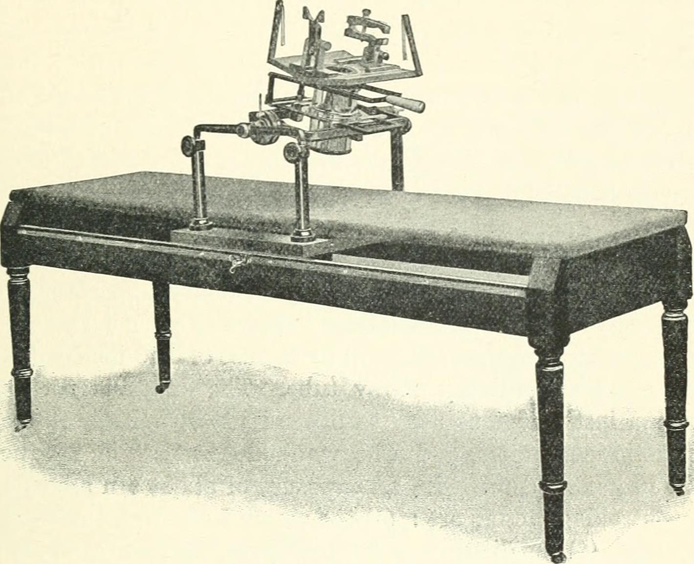 Title: Radiography, x-ray therapeutics and radium therapy Year: 1915 (1910s) Authors: Knox, Robert, 1868-1928 Subjects: Radiography Radiotherapy X-rays Publisher: London : A. & C. Black Text Appearing Before Image: atives so obtained. Here it is necessary to examine the whole tract insections. The emploAment of some form of compressor is of value in thismethod. Any compressor which steadies the parts and arrests respiratorymovements is sufficient for the purpose. The table may either be used withthe tube below the patient for screening and for the taking of radiographs,\vith a compressor upon the plate over the part to be examined; or by turn-ing the patient on the back, the plate can be placed underneath, and the tube-holder with a large extension tube brought down on to the abdomen. A thickpad of cotton wool may be used to compress still further the abdominal con-tents, this also serving the further purpose of minimising the inconvenienceof great pressure. Many elaborate forms of apparatus have been designed ; TECHNIQUE OF KIDNEY EXA^HNATION 237 tlie best is that introduced by Dr. Albers Schoenberg of Hamburg. Figs. 179and 180 show the essential parts of the apparatus, and its use in practice. Text Appearing After Image: Fig. 179.—-Coucli fitted with kiduey compressor. It is possible by this method to get small accurate pictures of the kidneys,bladder, and ureters. A later improvement of this compressor is the